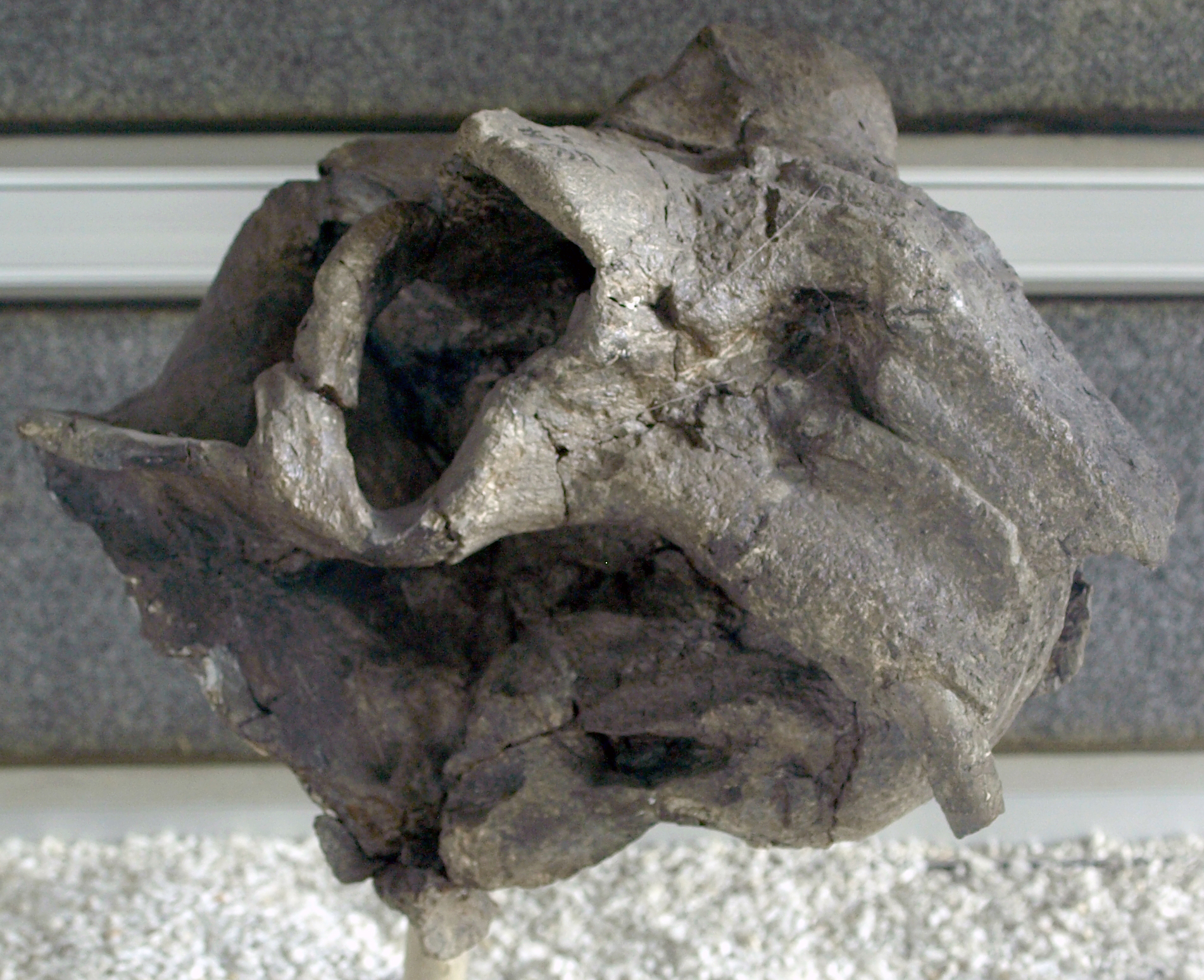 Second specimen of a Lystrosaurus skull on display at the Paleozoological Museum of China.